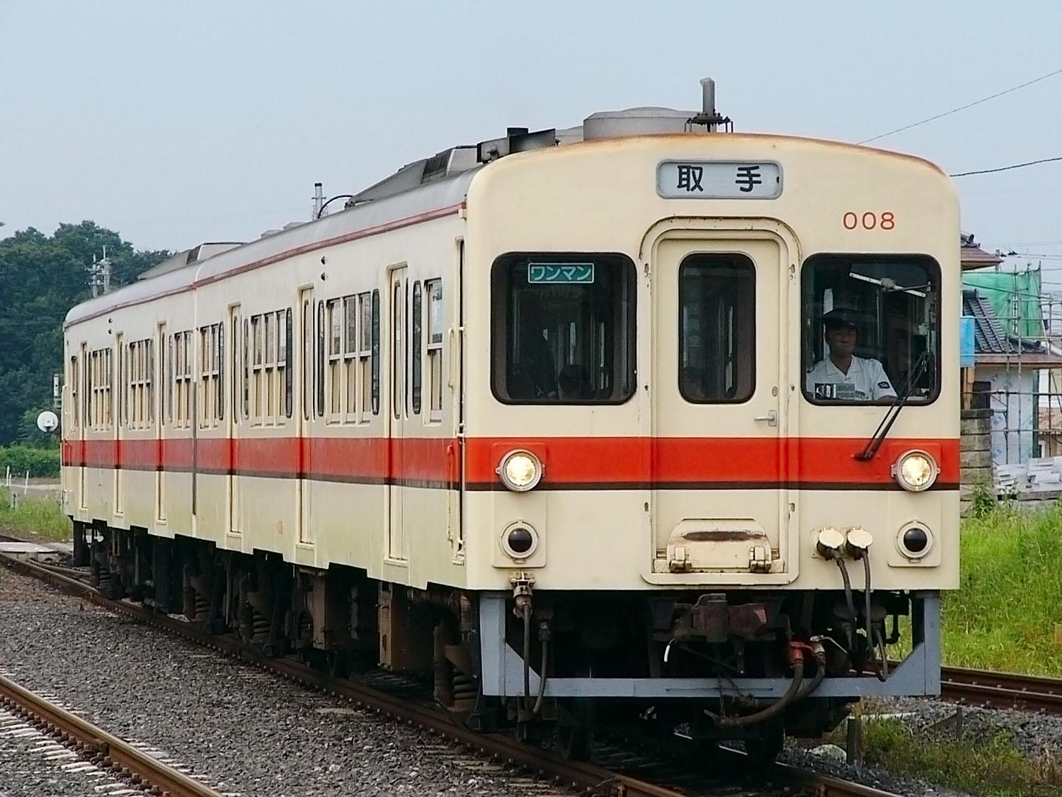 Kanto Railway 0 series DMU car 008 approaching Moriya Station on the Kanto Railway Joso Line in Moriya, Ibaraki Prefecture, Japan